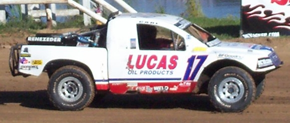 The Trophy Truck for Carl Renezeder at Crandon International Off-Road Raceway fall race.